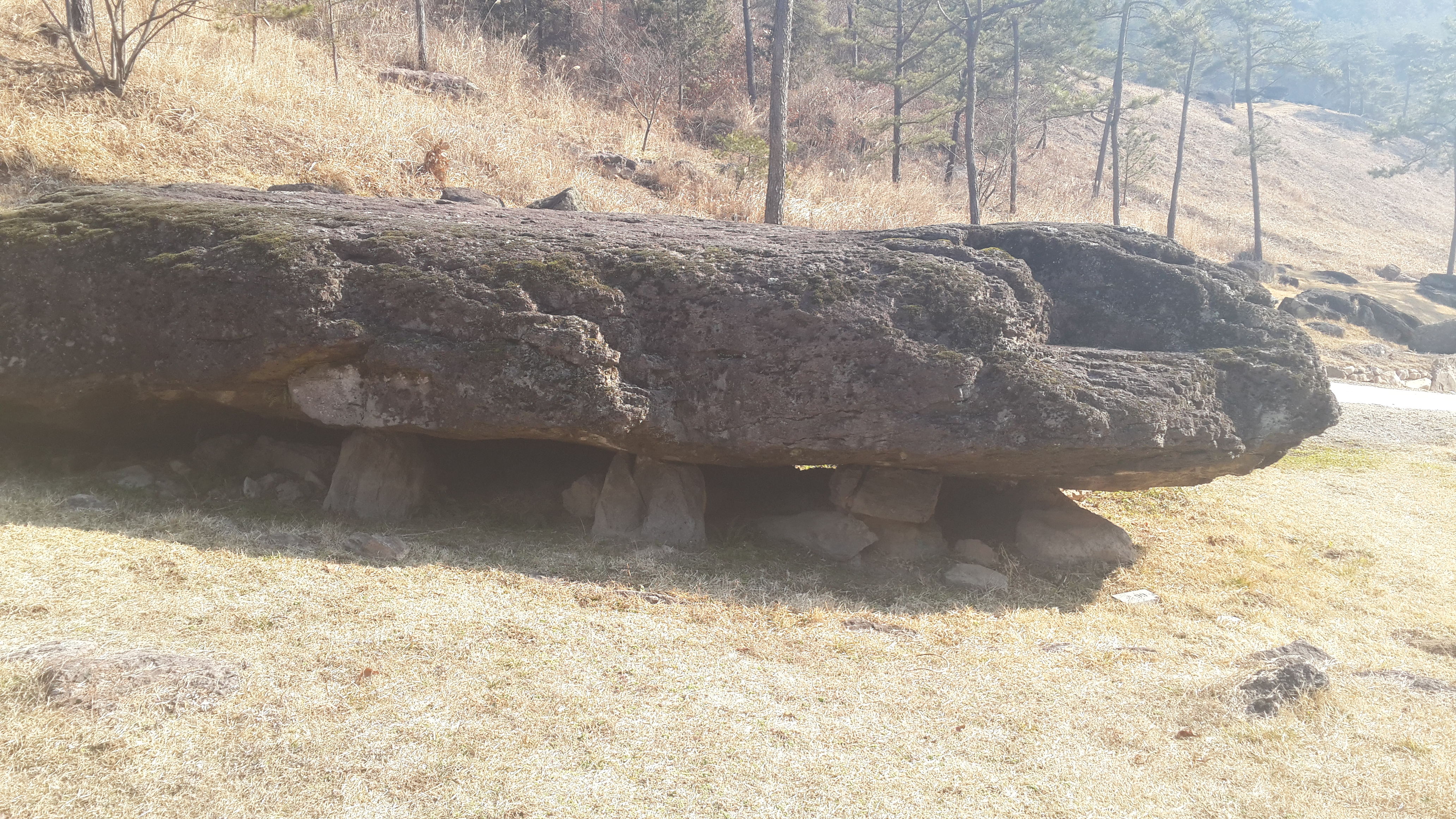 Dolmen sites in Hwasun, Jeollanam-do, South Korea which is one of the three places of UNESCO cultural heritages.